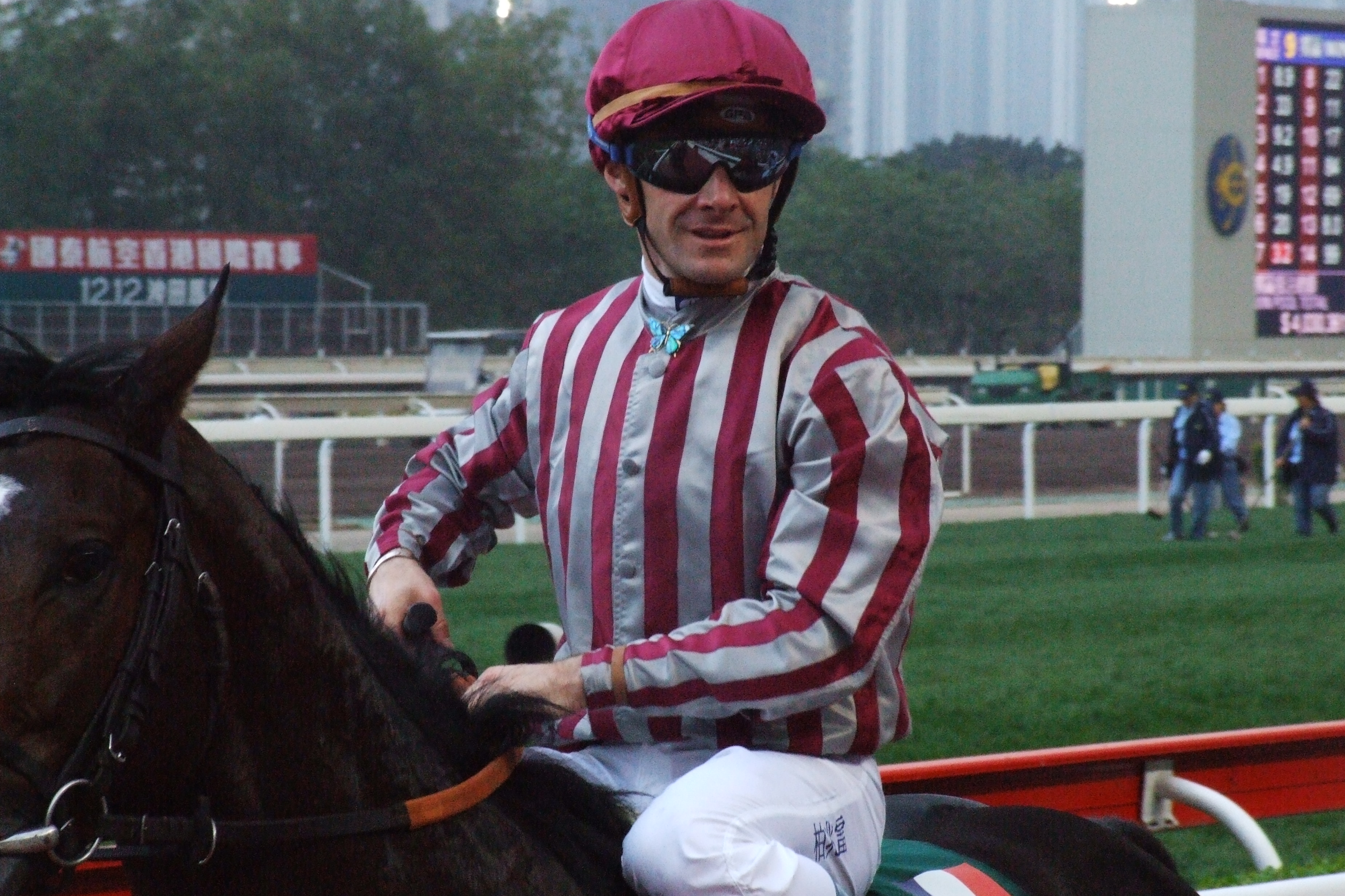 Olivier Peslier, French jockey. Take from Hong Kong after he ran with Vision d'Etat